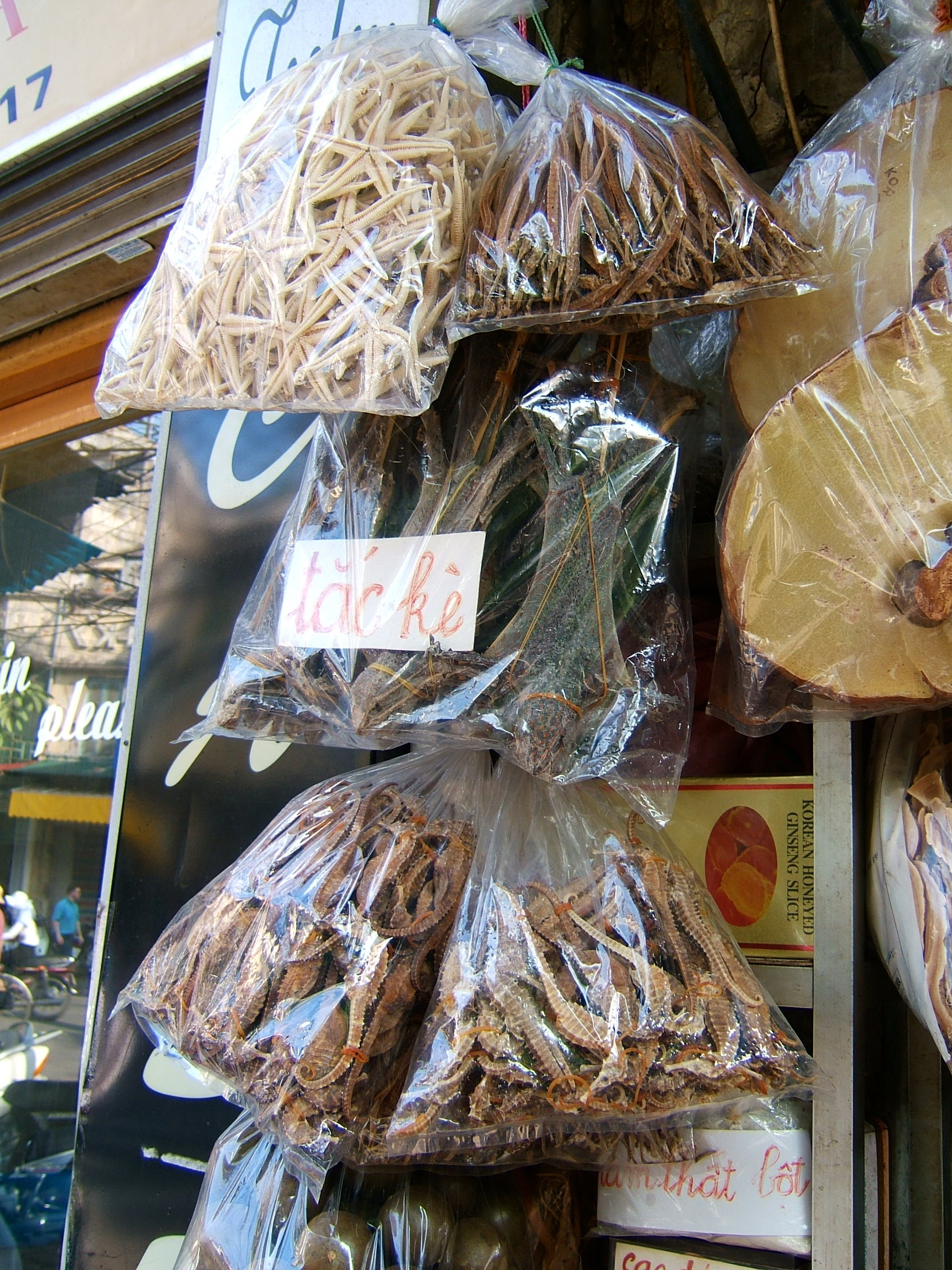 Raw herbs and raw animals to make Rượu thuốc